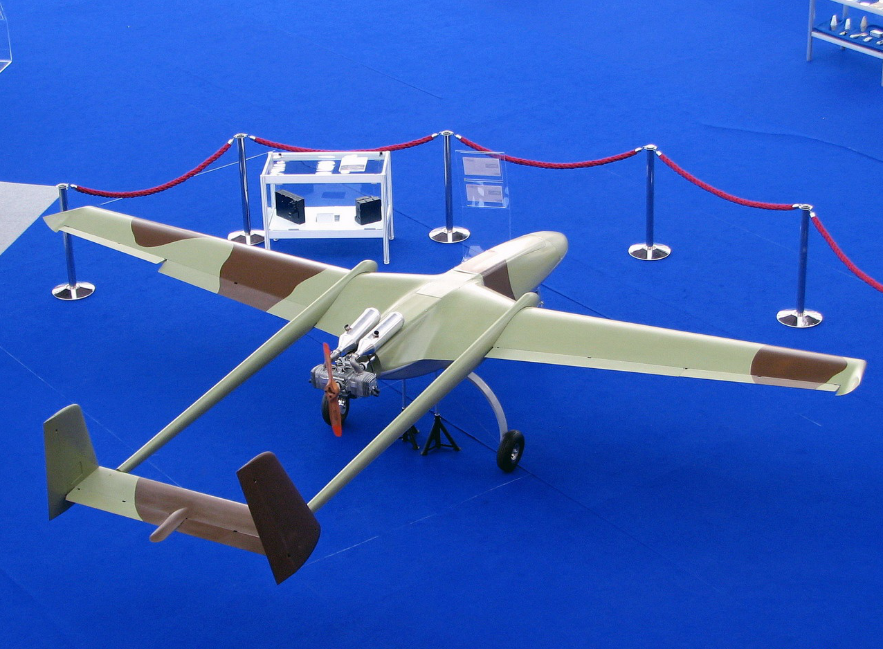 Picture of Searbian long range UAV - Pegaz